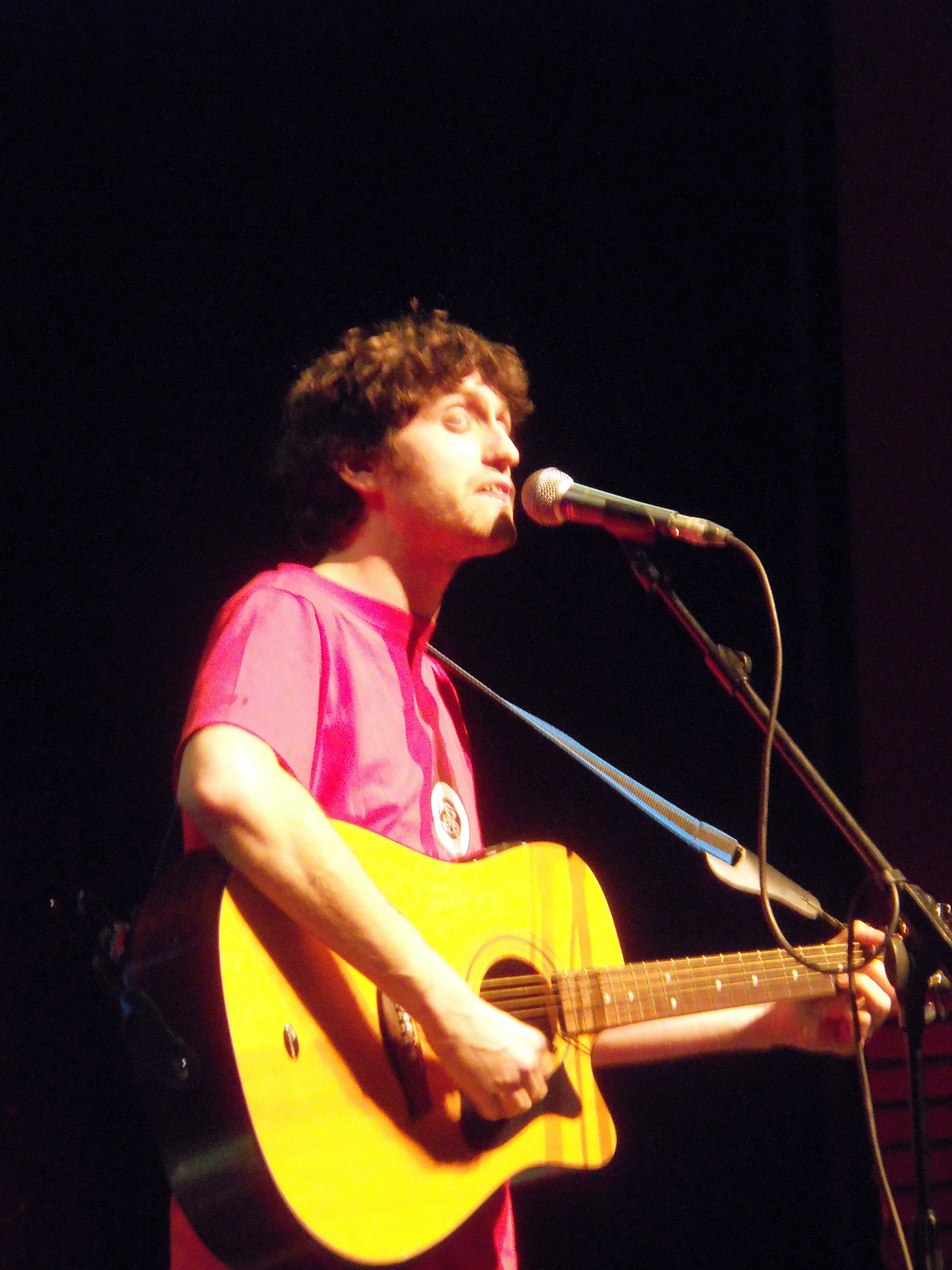 Comedian Jay Foreman, Hammersmith Apollo, 24 November 2011